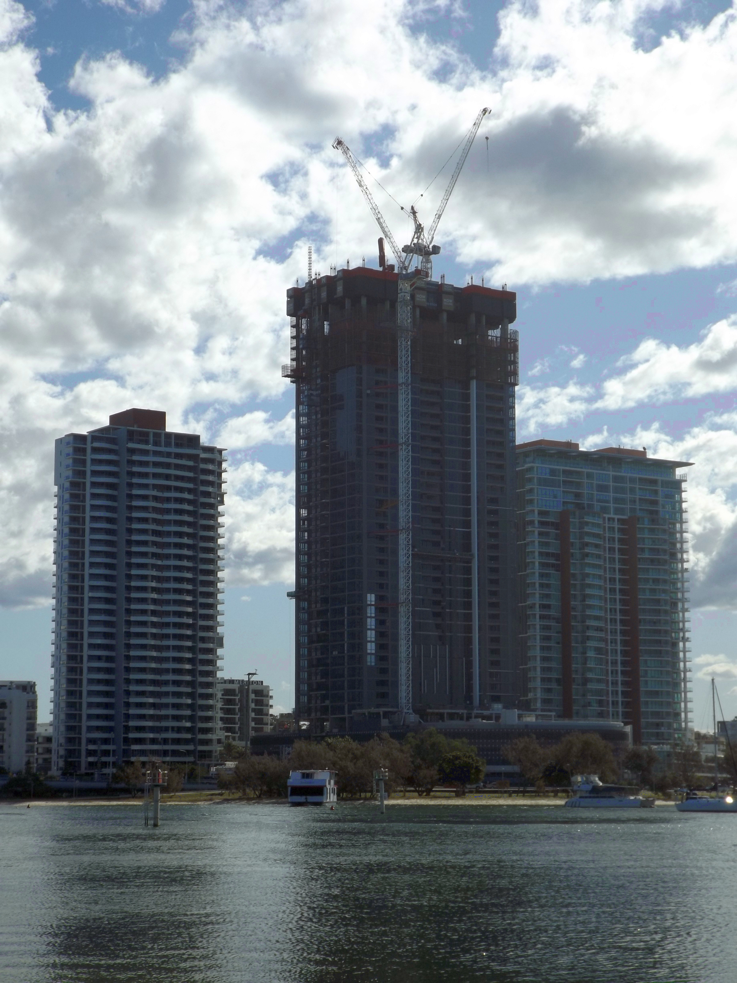 Photo of Sundale Apartments under construction at Southport, Gold Coast City, Queensland, Australia from across the Broadwater.